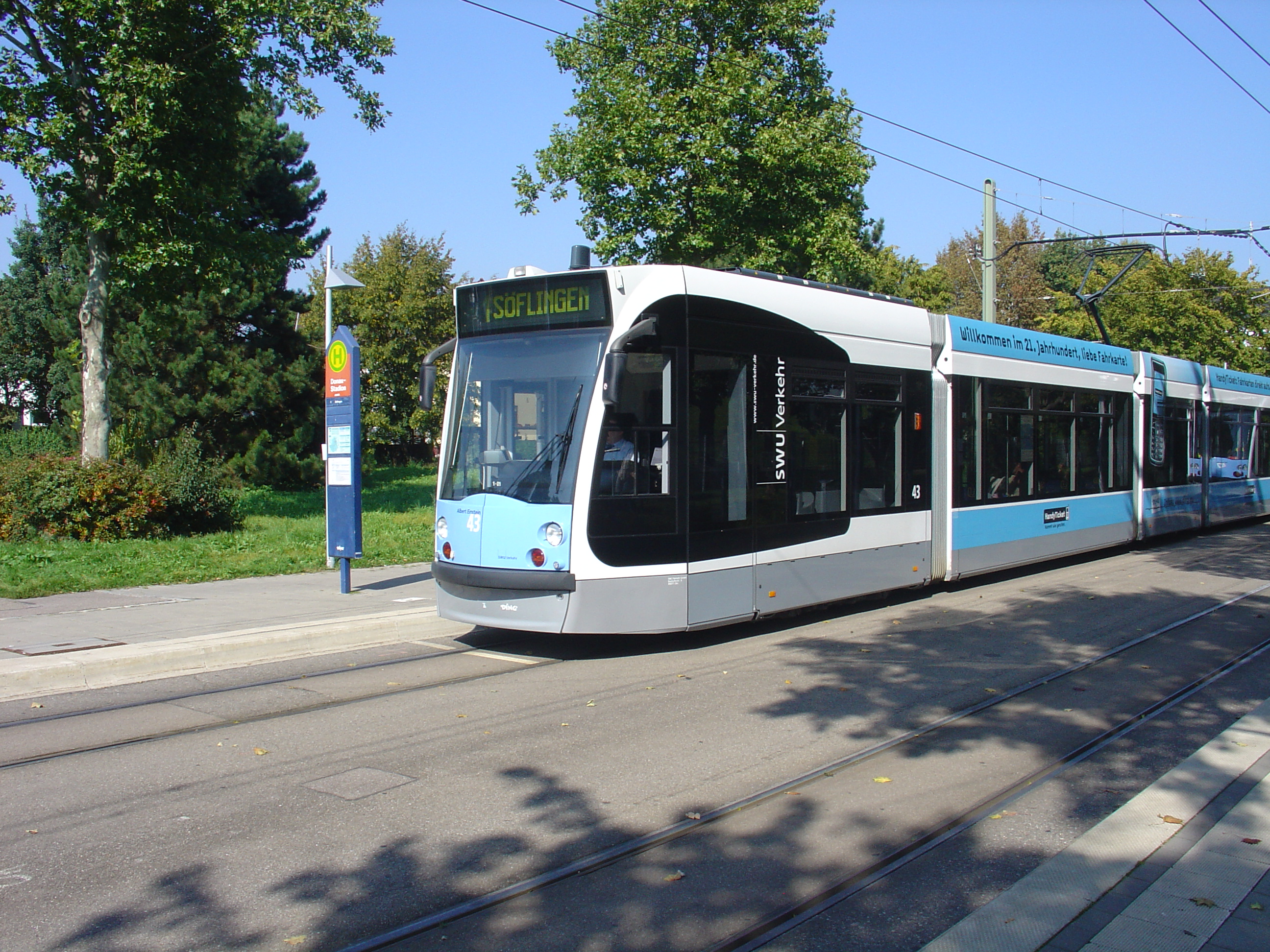 Siemens Combino tram (#43) in Ulm, Germany. Stadtwerke Ulm (SWU) operator.